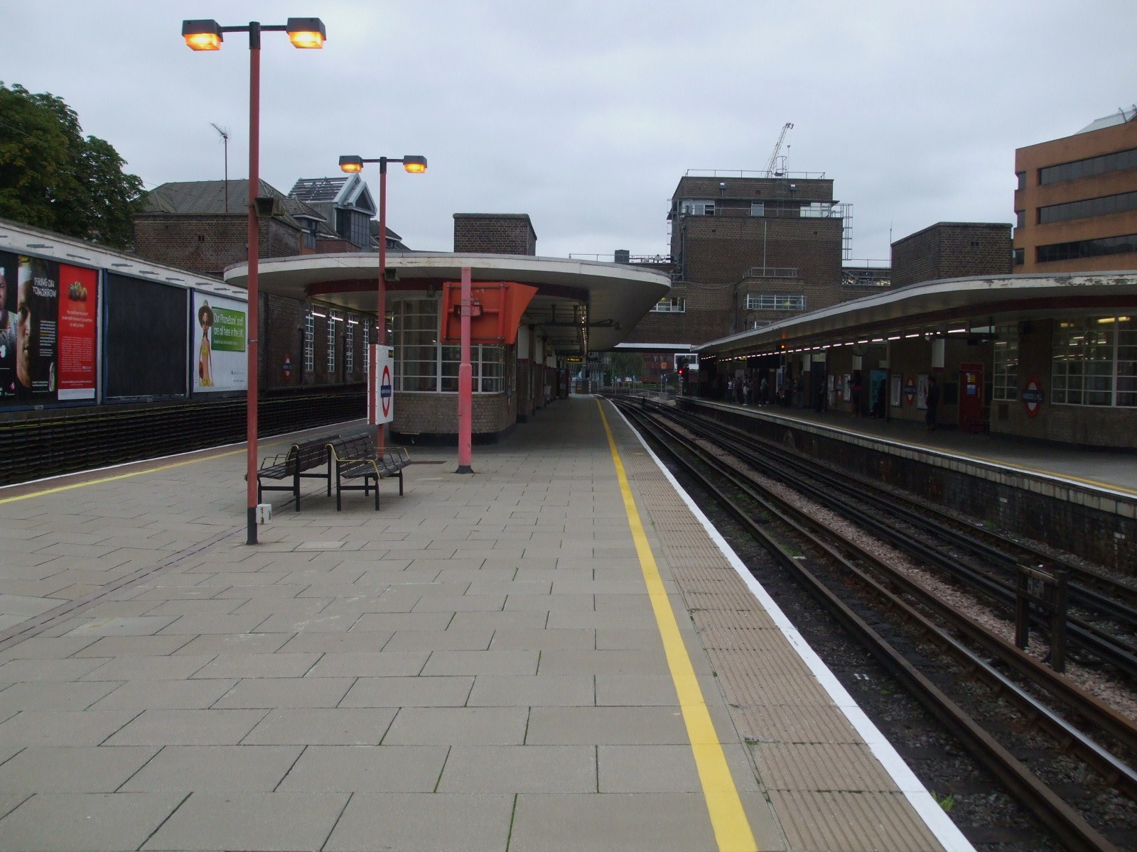 Harrow-on-the-Hill station platform 2 (southbound Chiltern Railway) looking north. Note fourth rail which ends at the southern end of the platform.